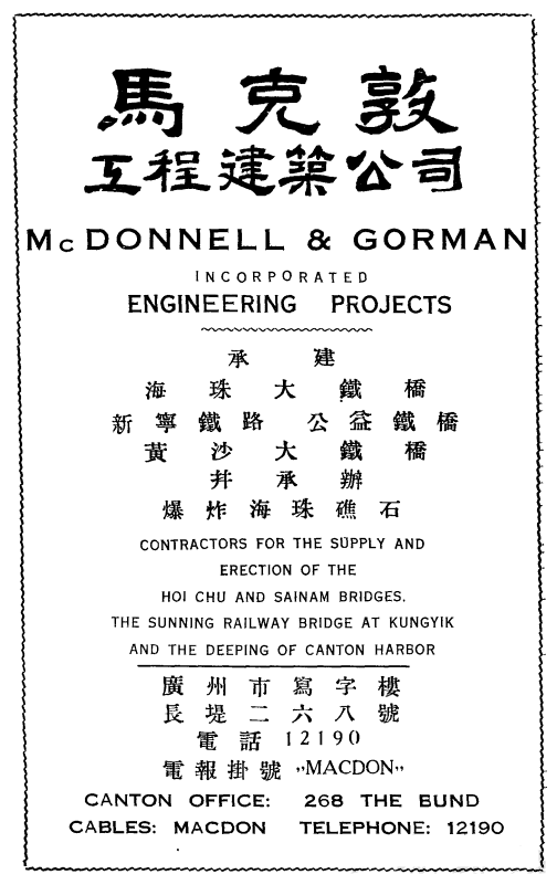 McDONNELL & GORMAN INCORPORATED ENGINEERING PROJECTS. CONTRACTORS FOR THE SUPPLY AND ERECTION OF THE HOI CHU AND SAINAM BRIDGES. THE SUNNING RAILWAY AT KUNGYIK AND THE DEEPING OF CANTON HARBOR. CANTON OFFICE: 268 THE BUND CABLES: MACDON TELEPHONE: 12190